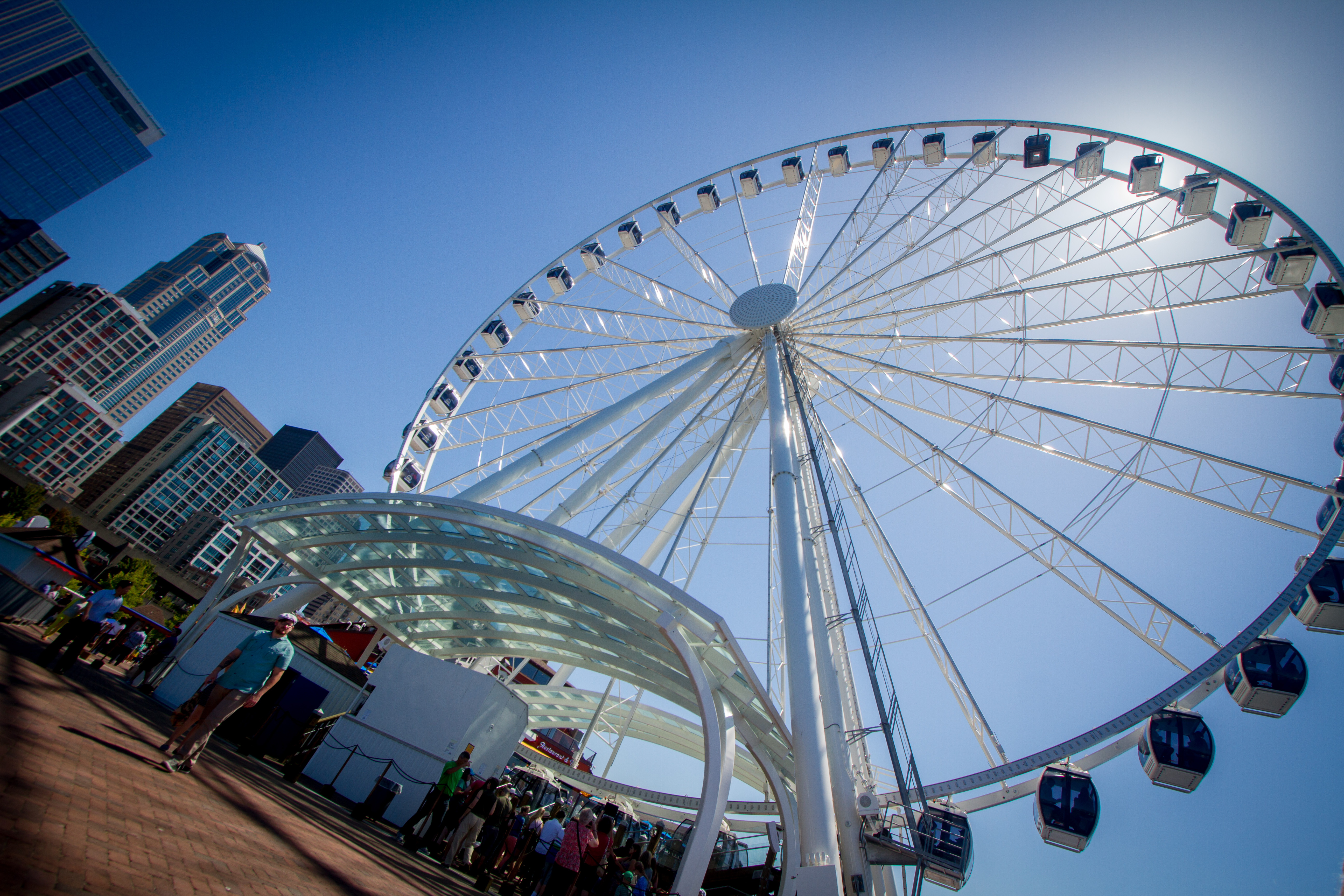 Seattle Great Wheel